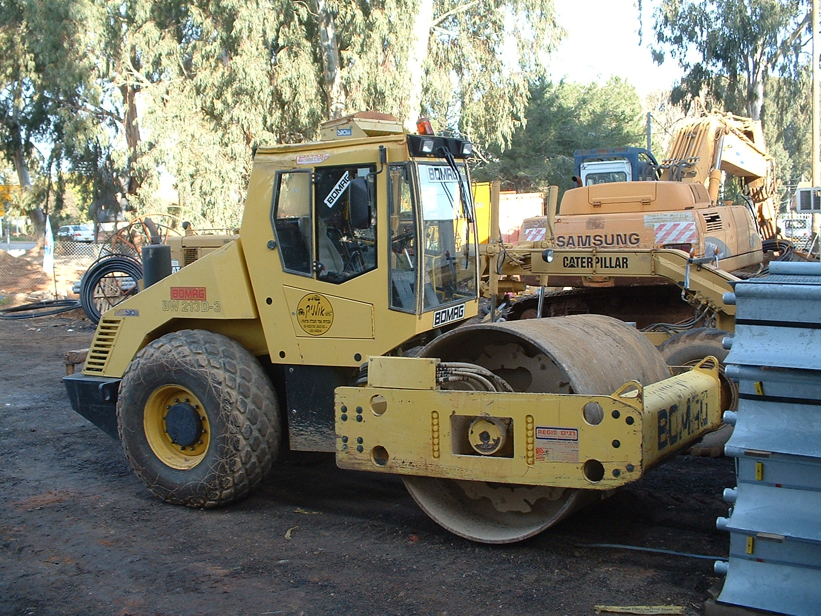 A large ride-on road roller with articulating-swivel in Pardes Hanna-Karkur, Israel, photographed working on Derech HaBanim.